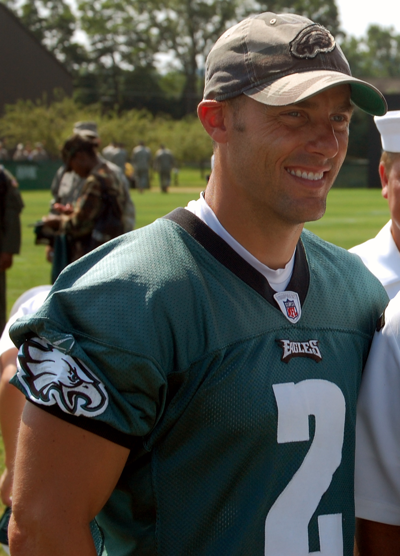 David Akers, a kicker with the Philadelphia Eagles, poses for a photograph during Military Day at the Eagles training camp at Lehigh University in Lehigh, Penn., Aug. 5, 2008. More than 200 military members from all the services, including more than 50 Airmen from McGuire Air Force Base and Fort Dix, both located in New Jersey, attended the event where they were served breakfast and met Eagles staff members and players.